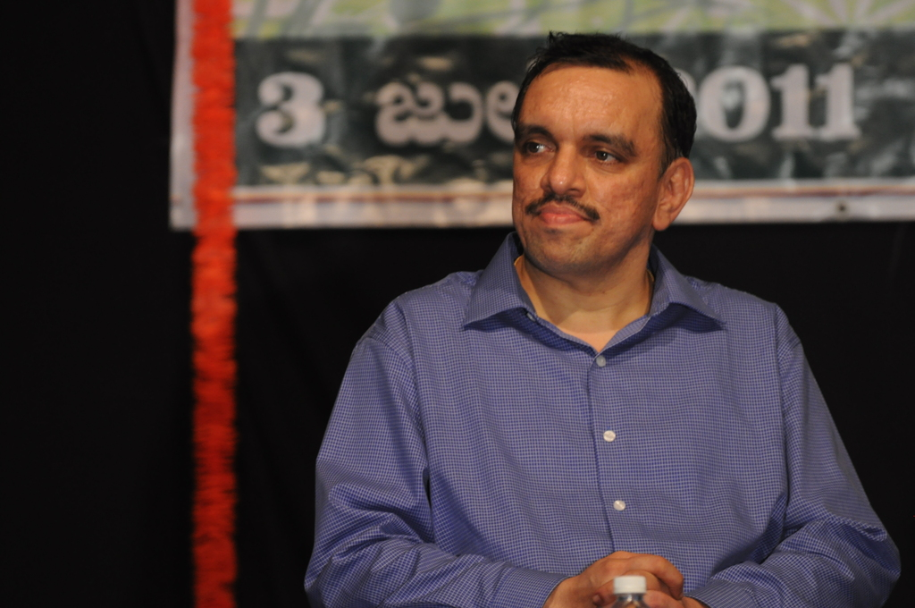 Picture from 'Sneha Sparsha', Srivathsa Joshi's Book Release that happened on July 3, 2011 at H N Kalakshethra, National College, Jayanagar, Bangalore, Karnataka, India